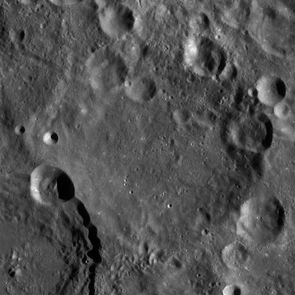 Fridman crater, on the far side of the moon. Mosaic of LRO WAC images.